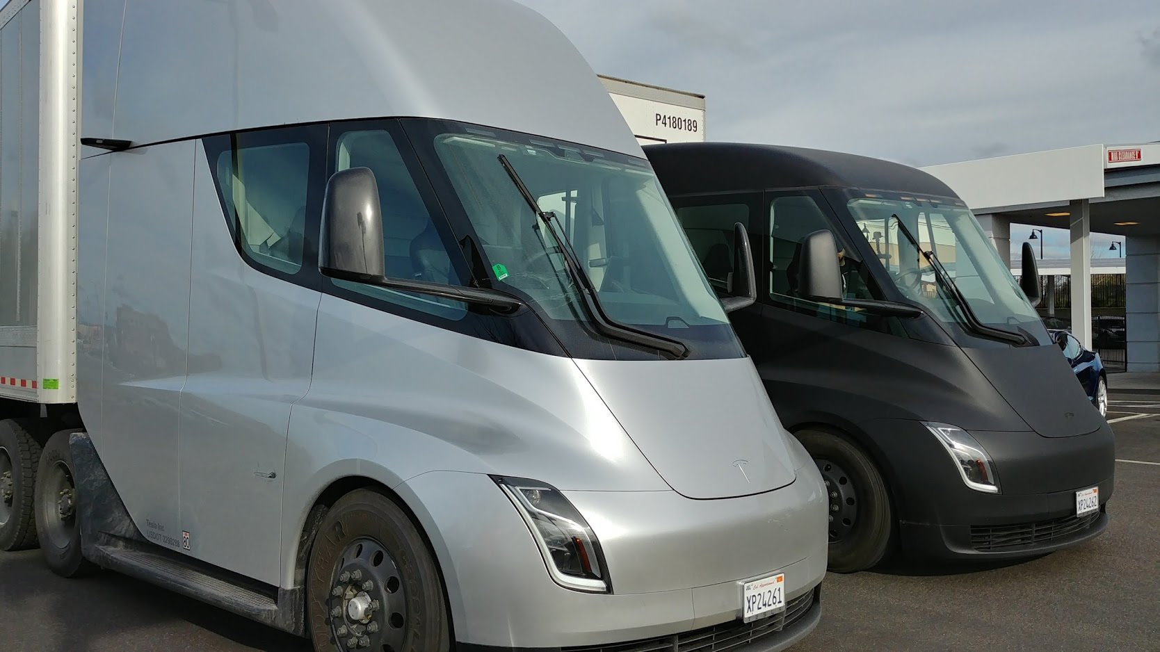 A silver and a black Tesla Semi in Rocklin, California